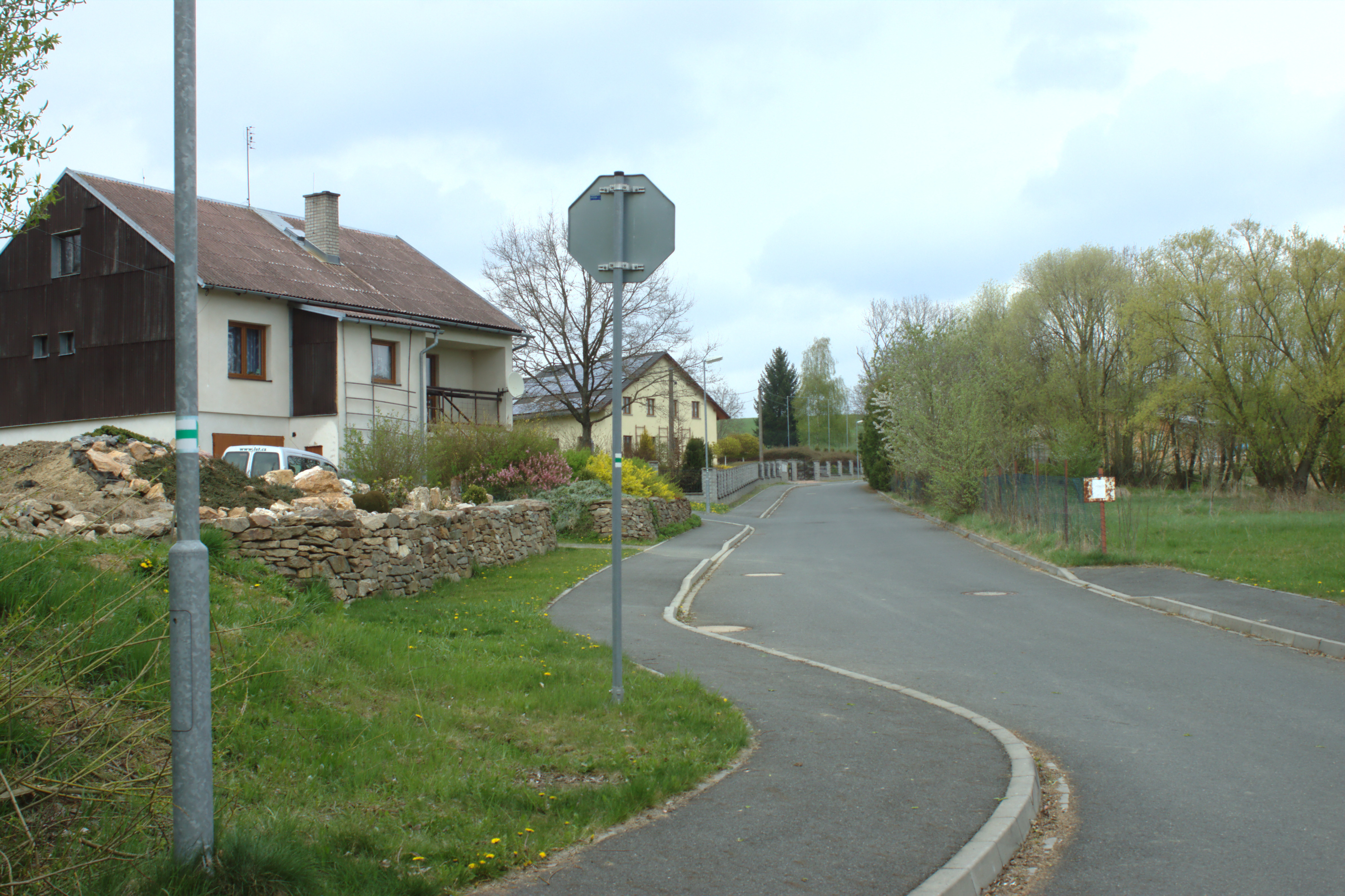 Buildings in the village of Nový Spálenec (Spálenec), Plzeň Region, CZ